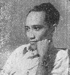 Indonesian writer Harjadi S Hartowardojo